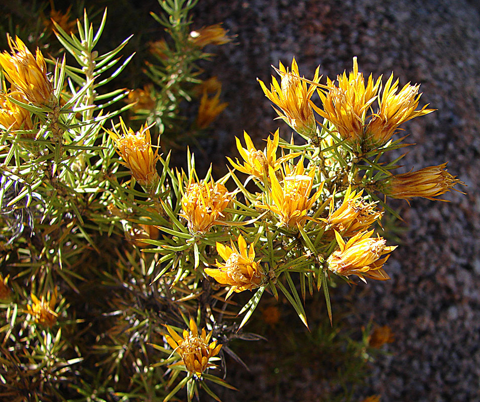 Mainly an Argentine species, of mountains and steppes. In context at